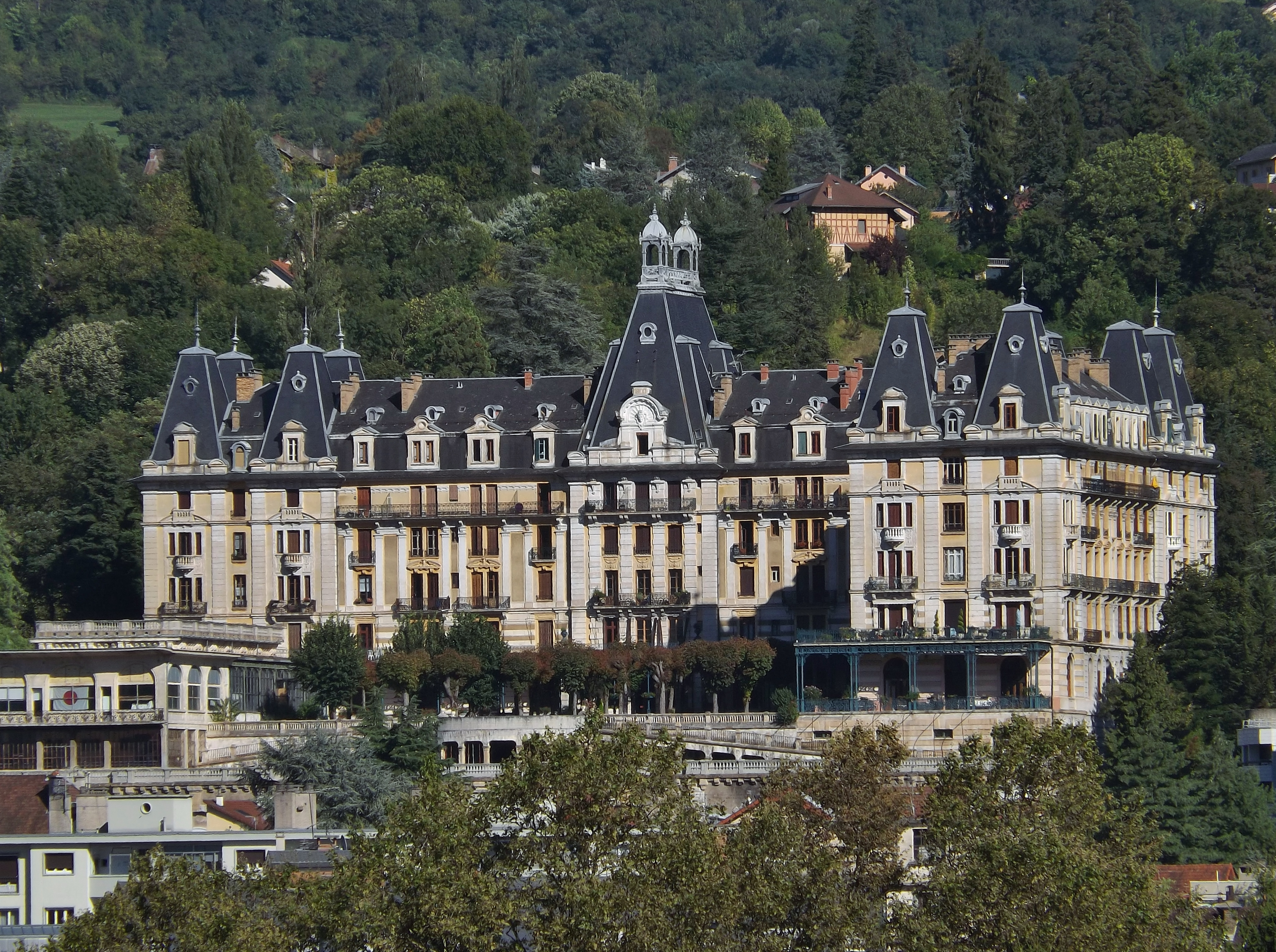 Sight of the Hôtel Bernascon palace, in the French city of Aix-les-Bains, in Savoie.